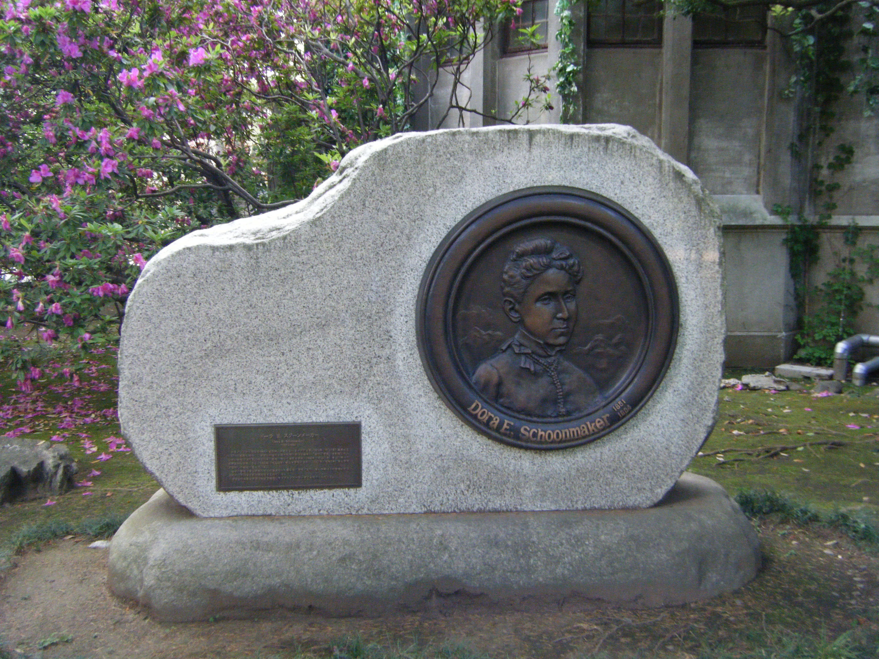 The monument of Dora E. Schoonmaker in Aoyama campus, Aoyama Gakuin University.